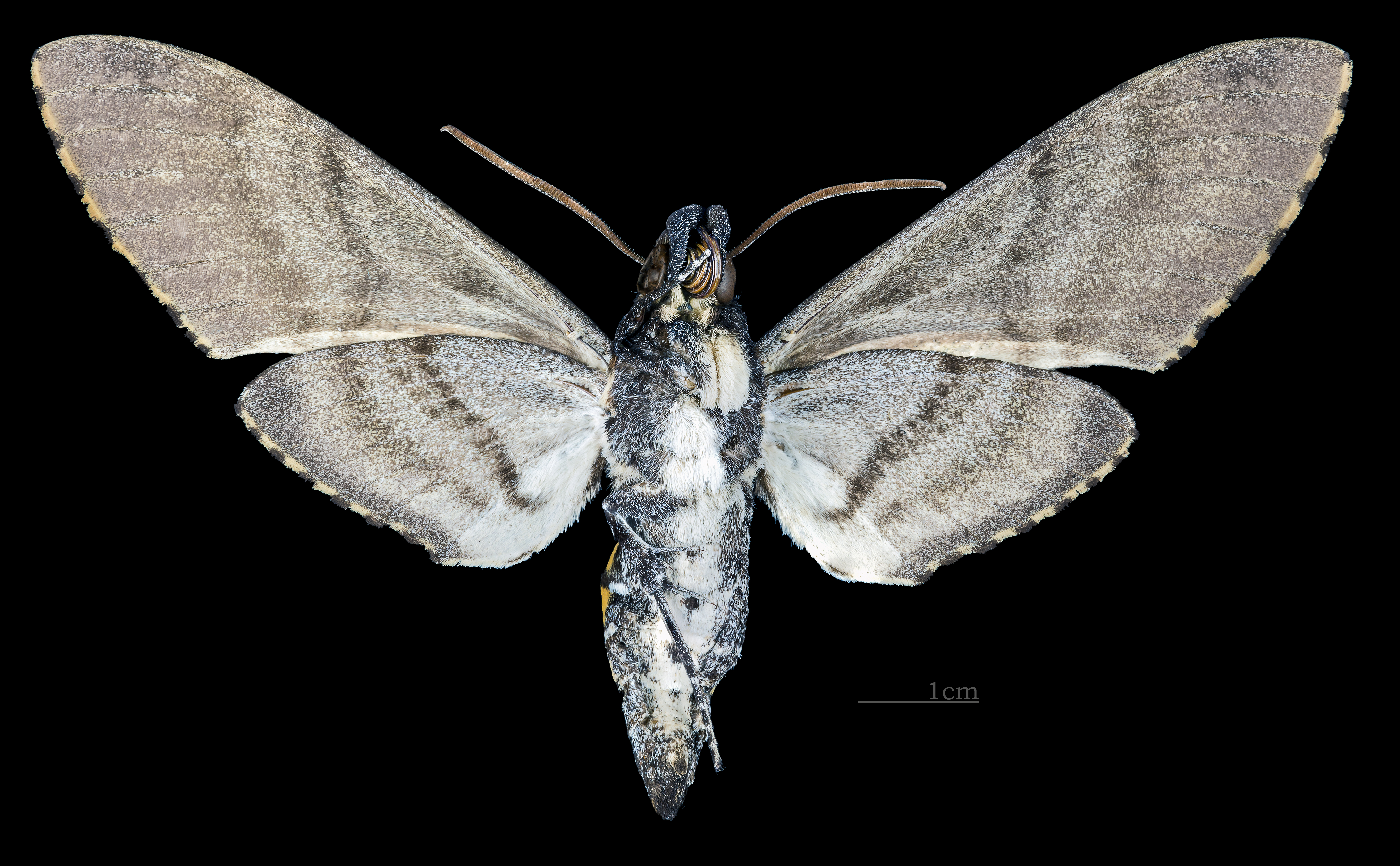 Manduca ochus - △ Ventral side Collection of the Mathematician Laurent Schwartz